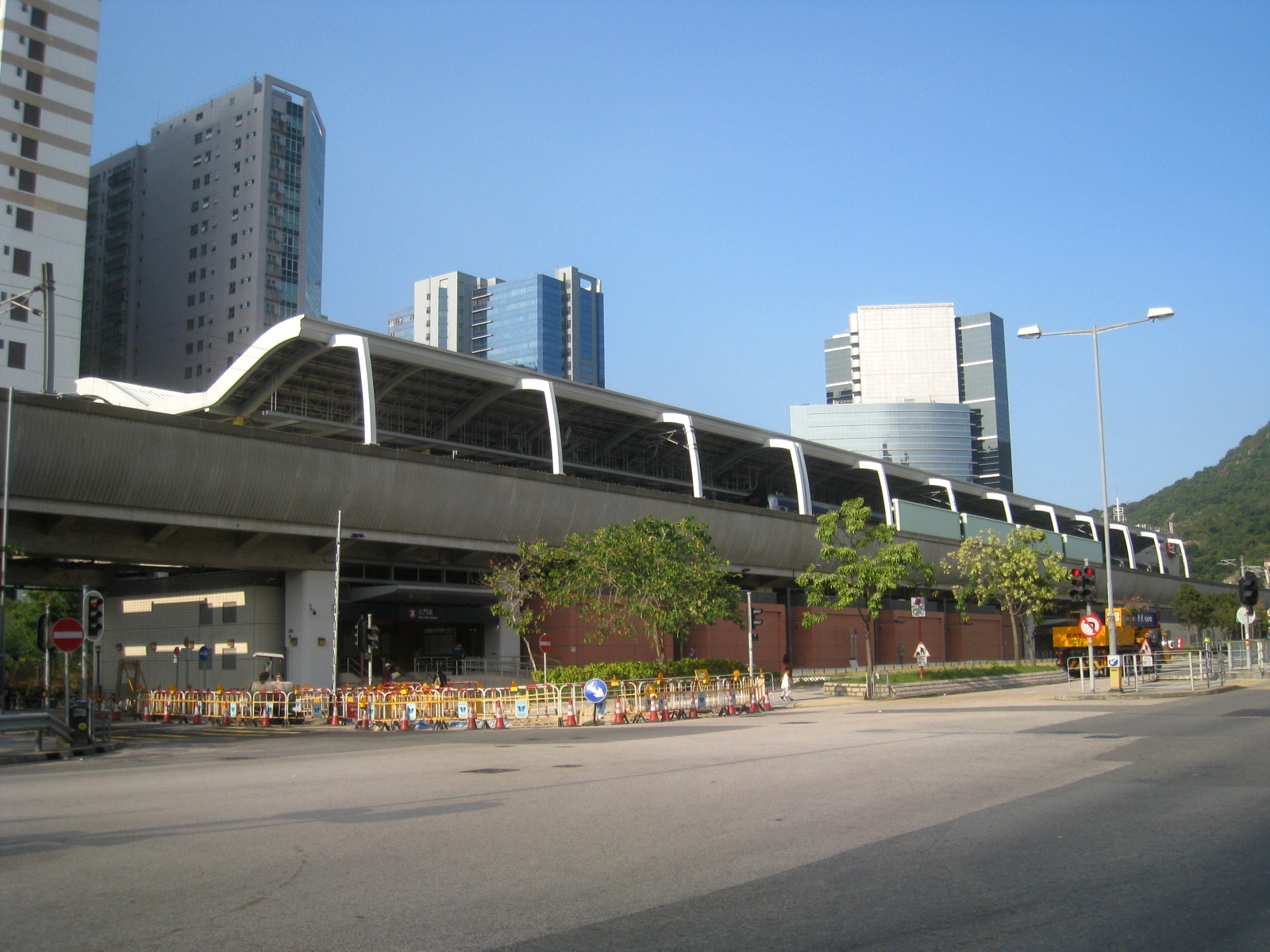 Shek Mun Station 石門站(香港)